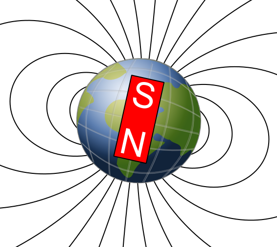 Schematic representation of Earth's magnetic field lines